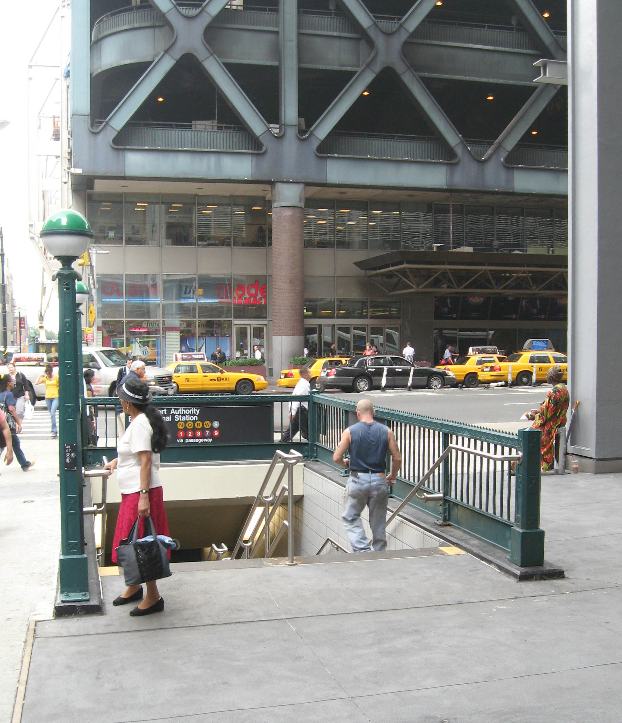 Looking west at en:42nd Street–Port Authority Bus Terminal (IND Eighth Avenue Line) station on a rainy afternoon